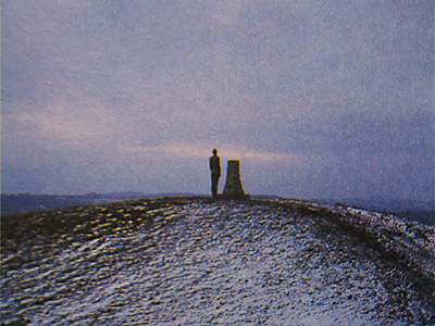 Antony Gormley sculpture, 'A view, a place', looking over the Fowlea Valley, sited at the highest point of the 1986 National Garden Festival, England.